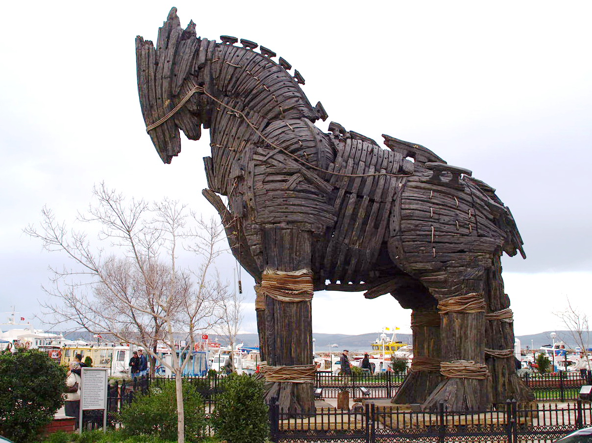 The maquette horse from the 2004 film Troy - a present to Chanakkale from Brad Pitt